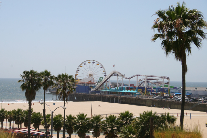 The Santa Monica Pier, California, Usa